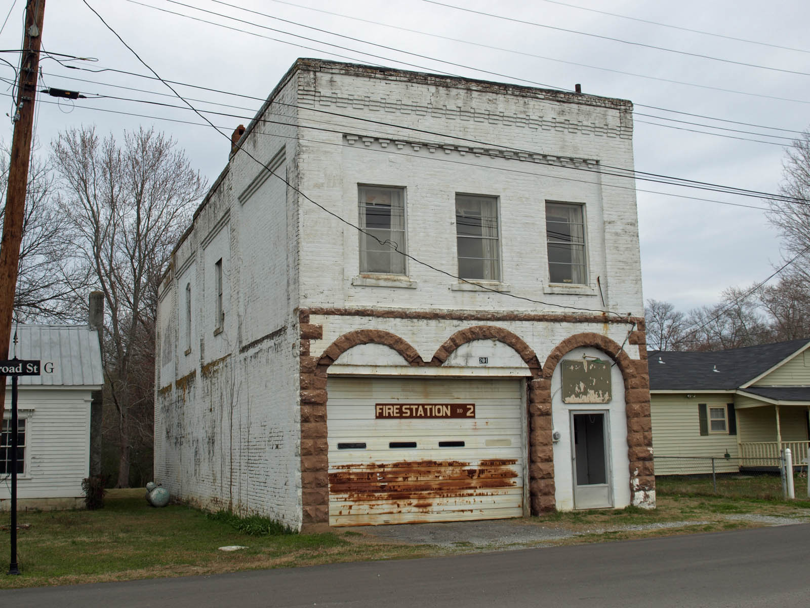 The Old Gurley Town Hall in Gurley, Alabama, part of the Gurley Historic District